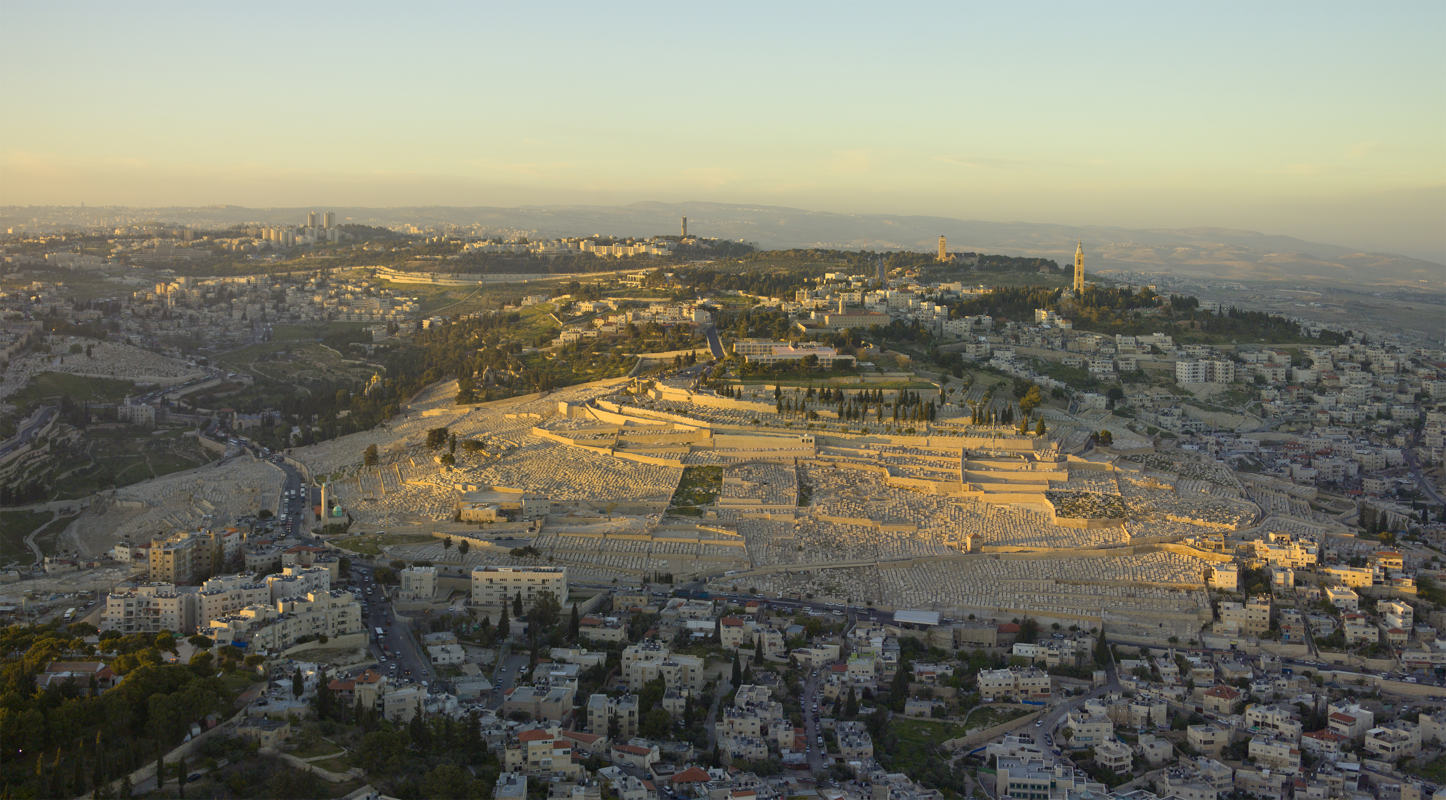 Sunset aerial photograph of the Mount of Olives in Jerusalem (view from the south).